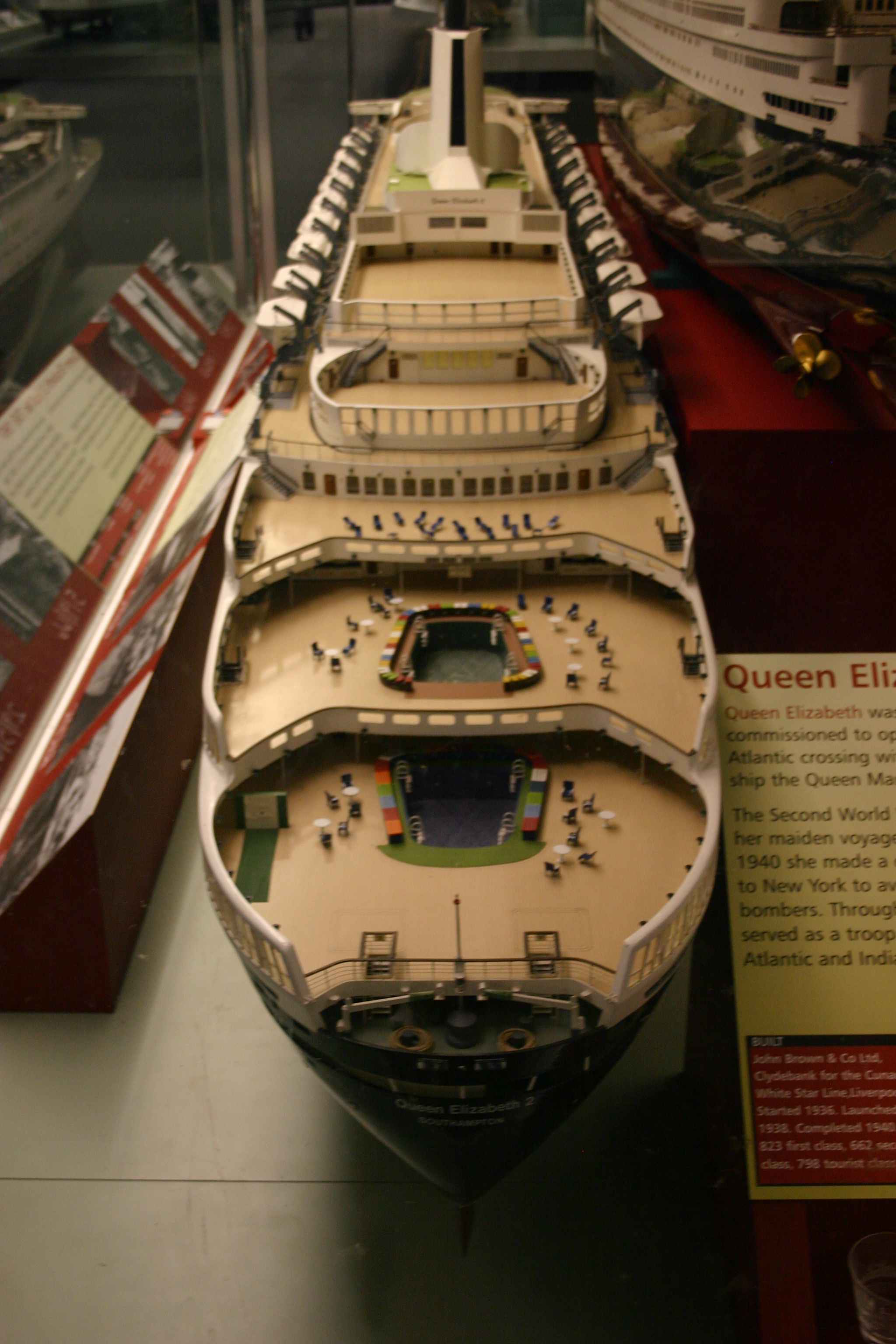 Model of RMS Queen Elizabeth